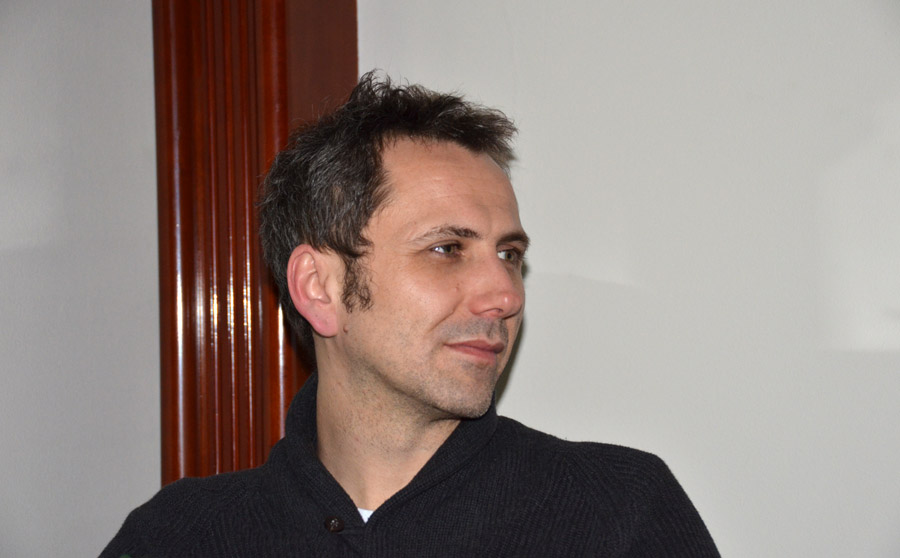 Oliver Frljić